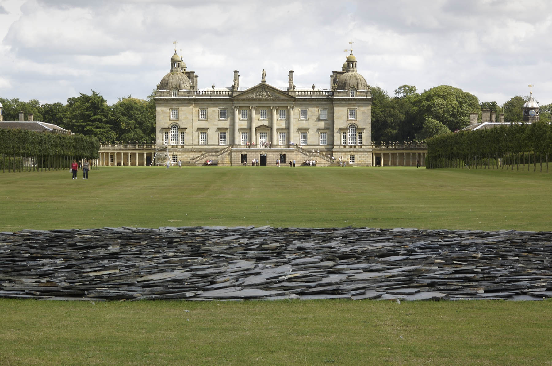 Houghton Hall with the sculpture Full Moon Circle by Richard Long in Norfolk/U.K.